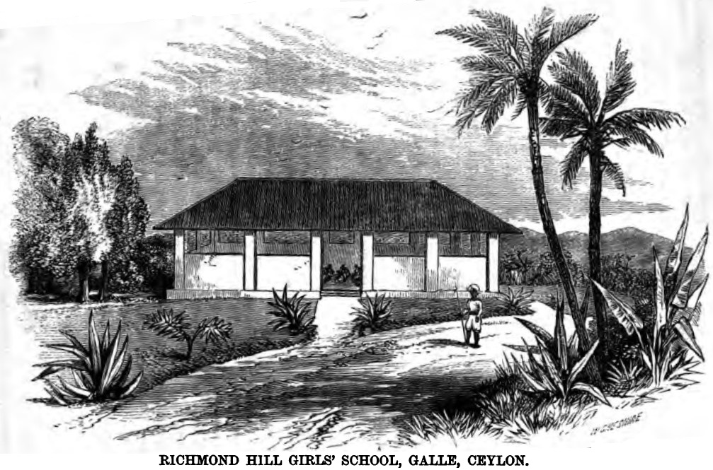 Richmond Hill Girls' School, Galle, Ceylon (127, November 1868, II (New Series))